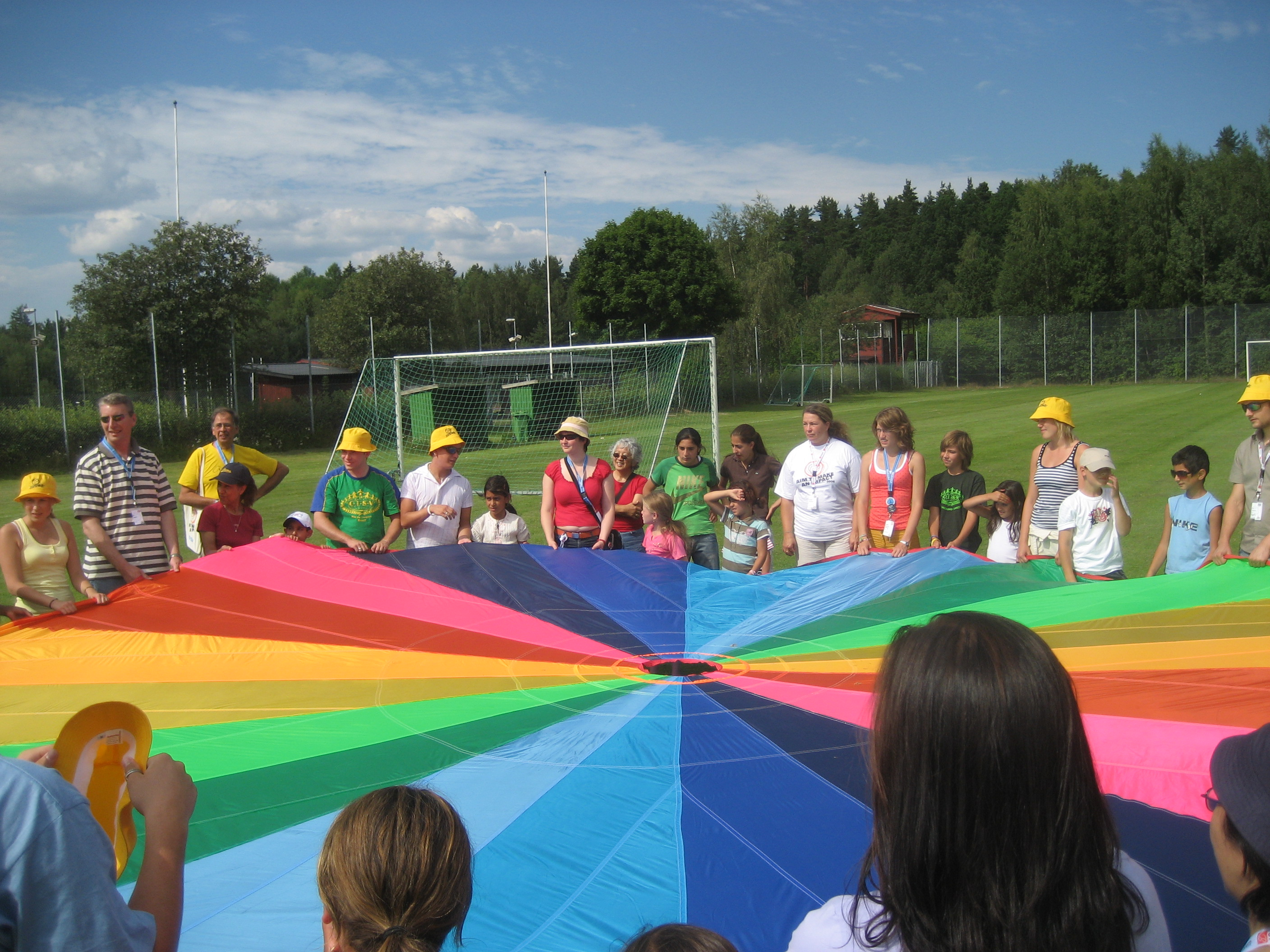 Example of a CISV Mosaic educational program in Sweden, 2006